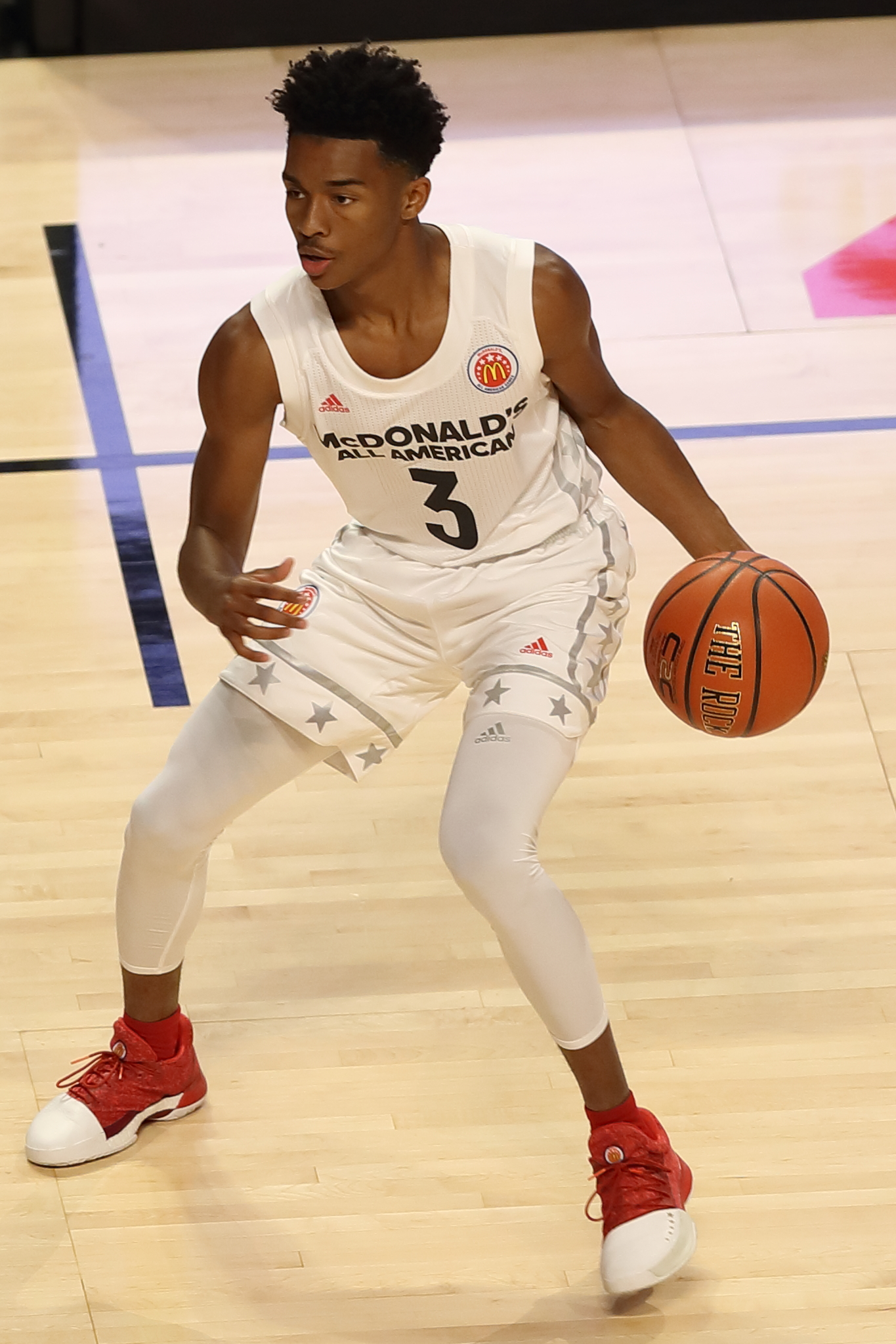 Jaylen Hands at the w:2017 McDonald's All-American Boys Game